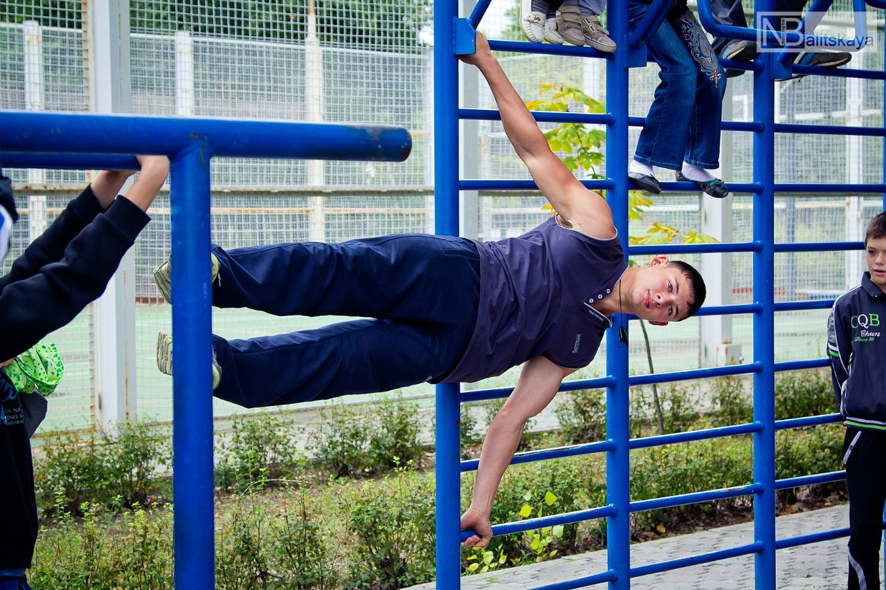 Rear human flag.